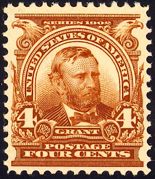 US Postage stamp: Ulysses S. Grant, Issue of 1903, 4c, brown